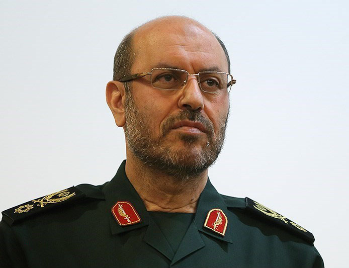 Brigadier general Hossein Dehghan, current Defense and Armed Forces Logistics Minister of Iran.